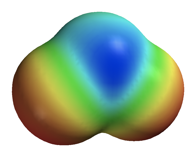 Electrostatic potential surface of sulfur dioxide, SO2. Generated with Spartan ST.